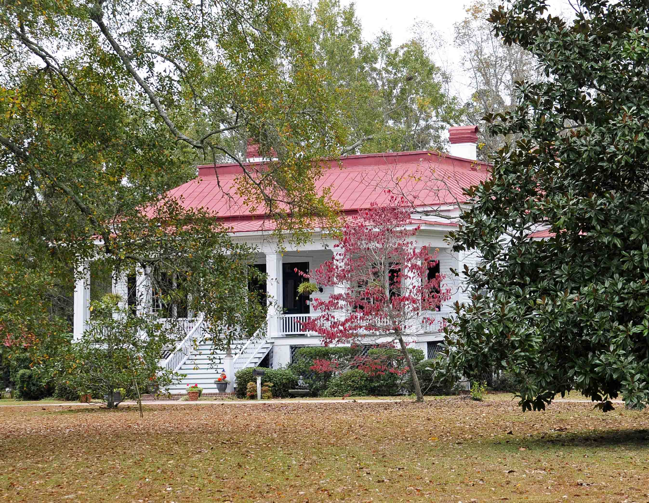 Col. Olin M. Dantzler House, St. Mathews, South Carolina